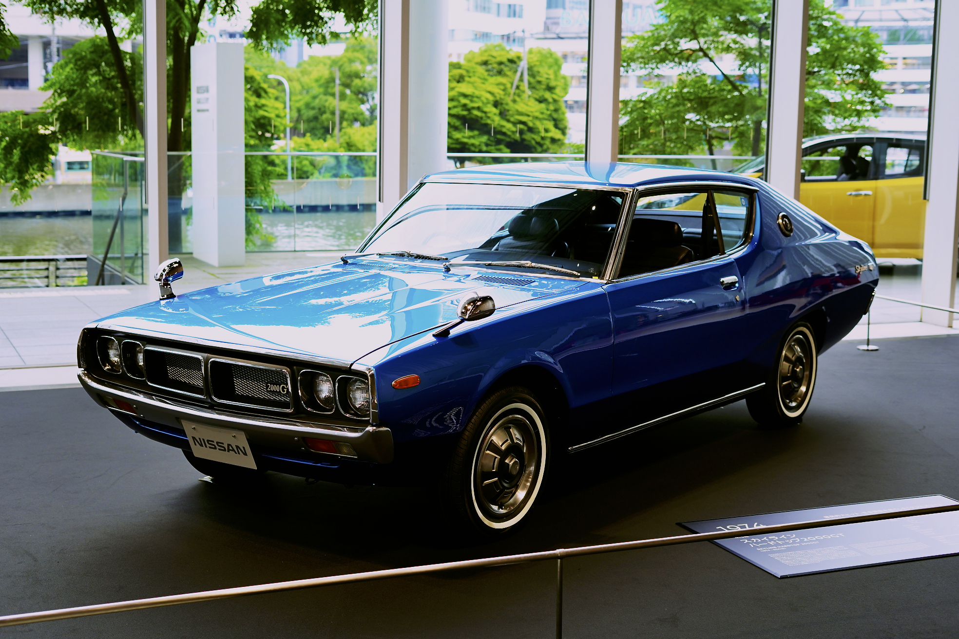 Nissan Skyline 2000GT hardtop coupe 1974 model